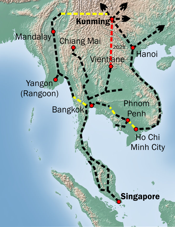 Overview map of the proposed connections for the Kunming-Singapore railway. Background map is File:Asia vectorial map.jpg, information on approximate routes comes from this excellent map.